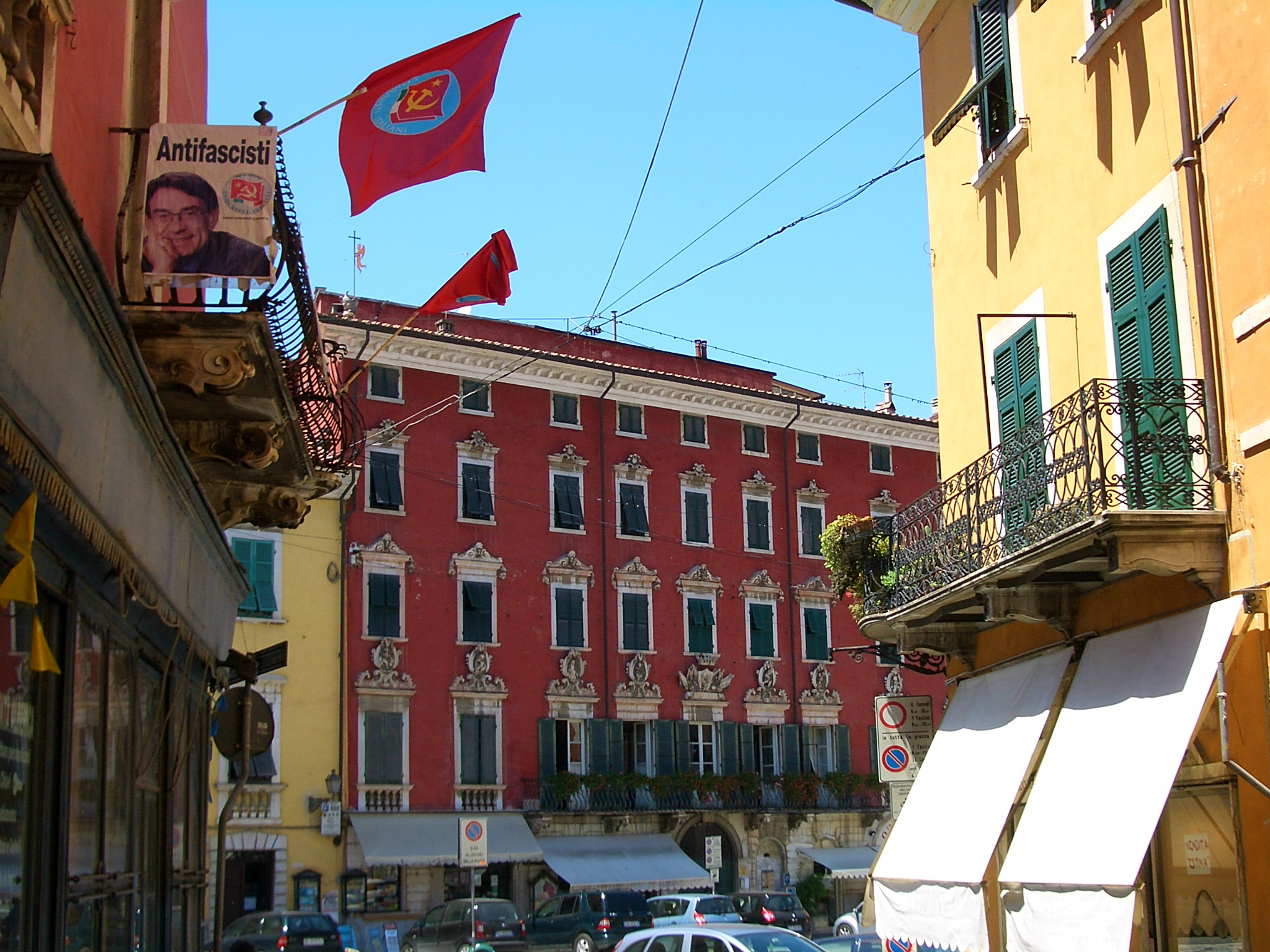 In Carrara's central square. The flag of Partito dei Comunisti Italiani (Party of Italian Communists), one of Italy's many communist parties, flown at its office